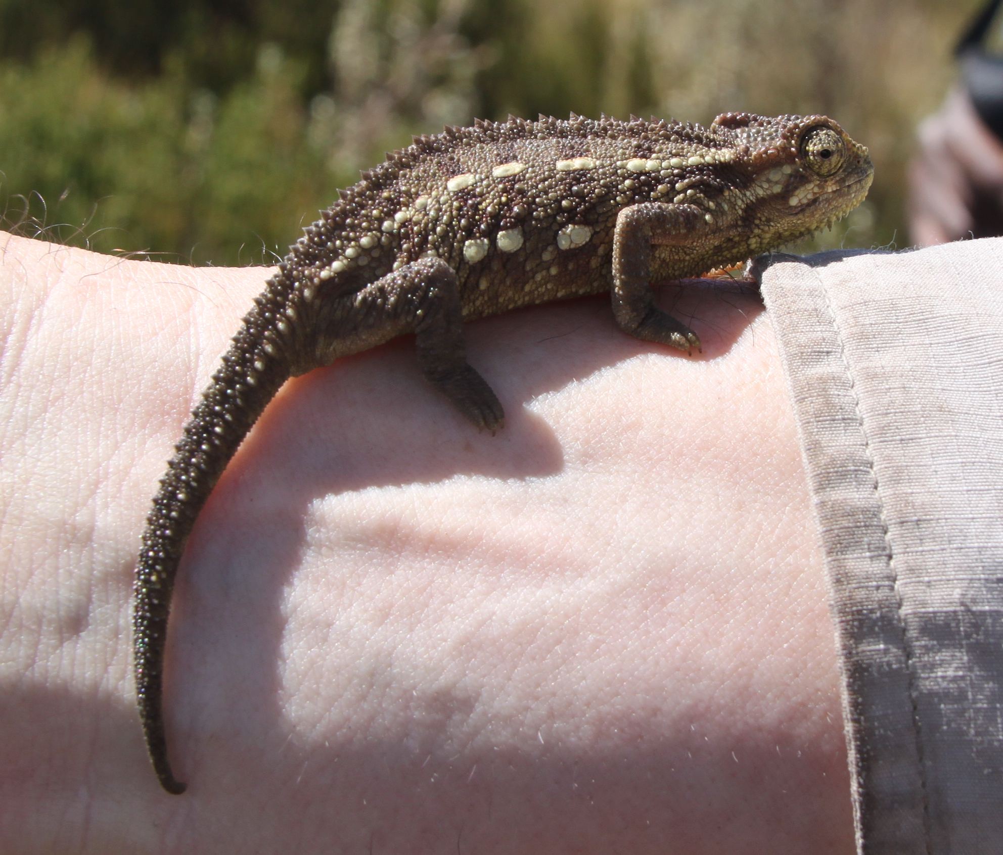 Side-striped chameleon Trioceros bitaeniatus, photographed on Mount Kenya, at approximately 3600 m altitude, about 10 cm in length, side view